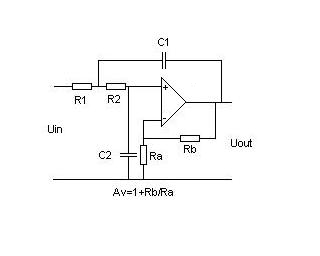 Sallen & Key filter configuration